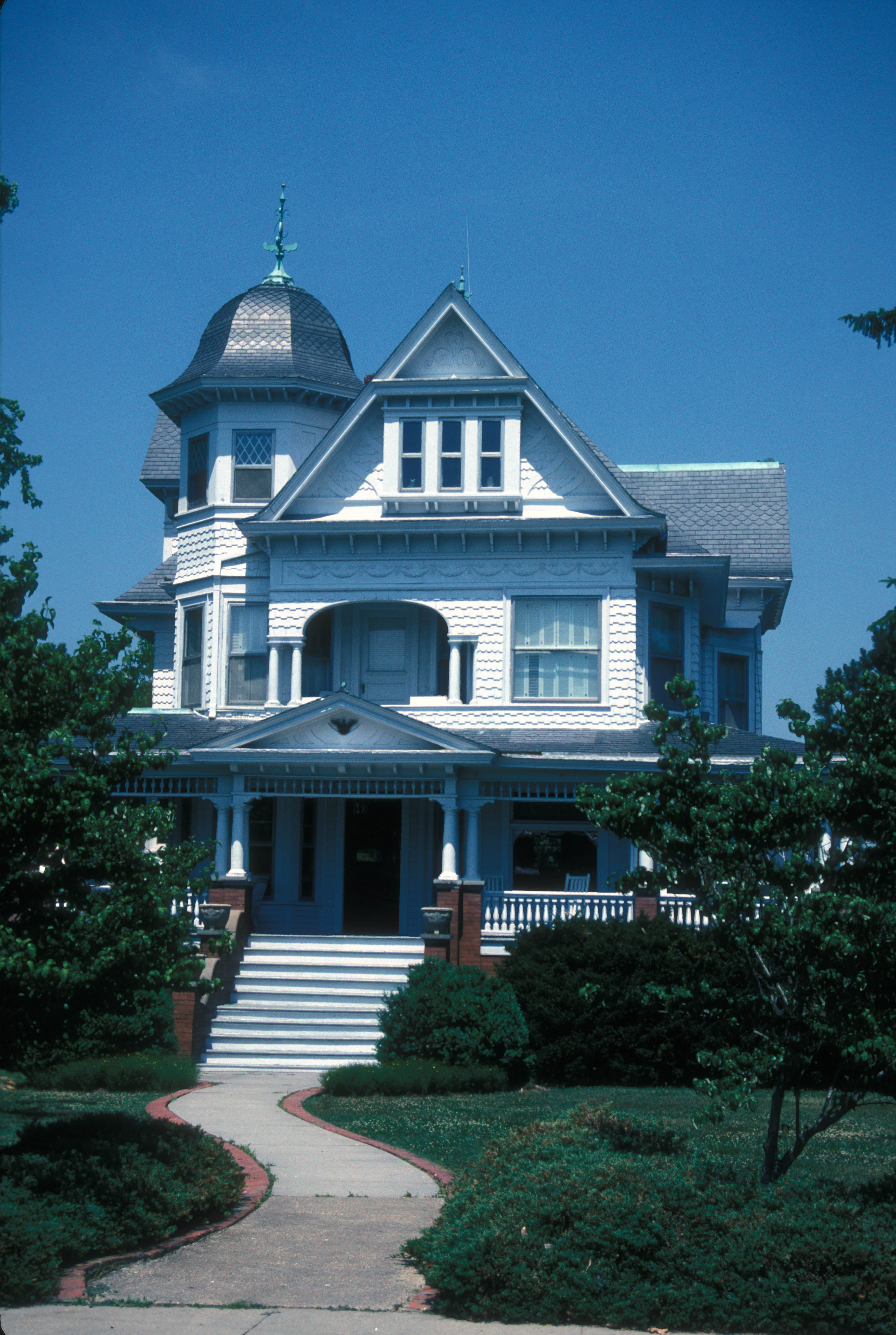 ONCE THE CENTER OF THE MENHADEN (SHAD) INDUSTRY OF THE U.S.; HIGHEST PER-CAPITA INCOME TOWN IN THE U.S. AFTER WW I